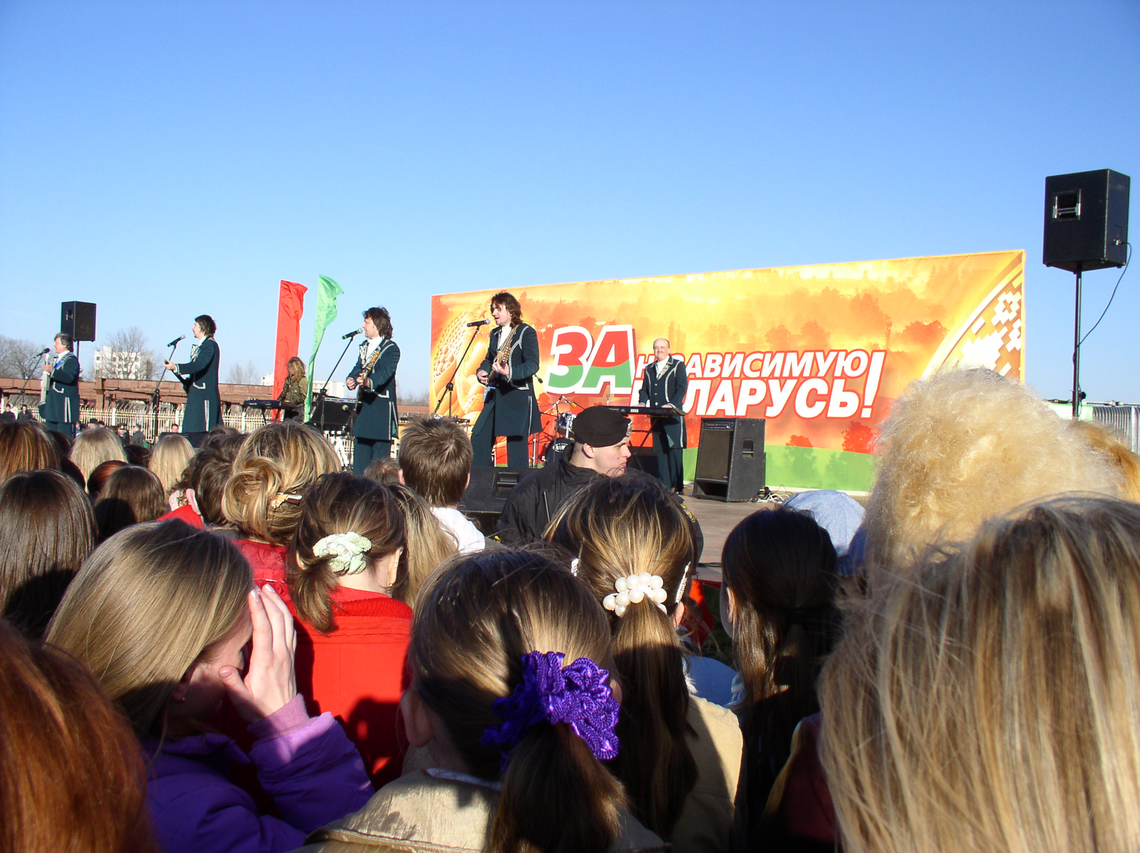 Concert "For Independent Belarus" near airport Minsk-1. Minsk, Belarus.